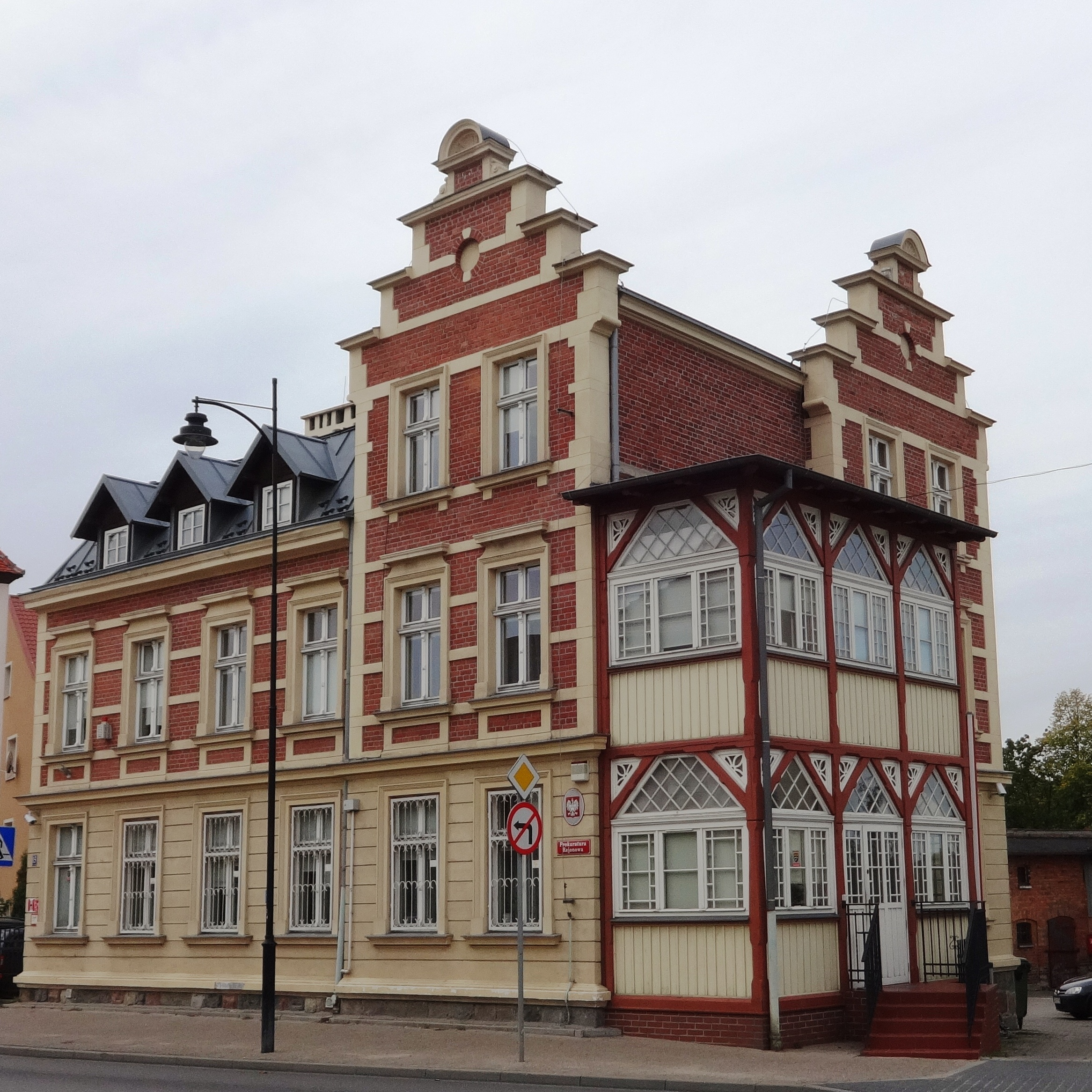 Prosecutor office in Kartuzy, Poland